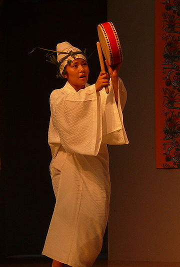 okinawa costumes